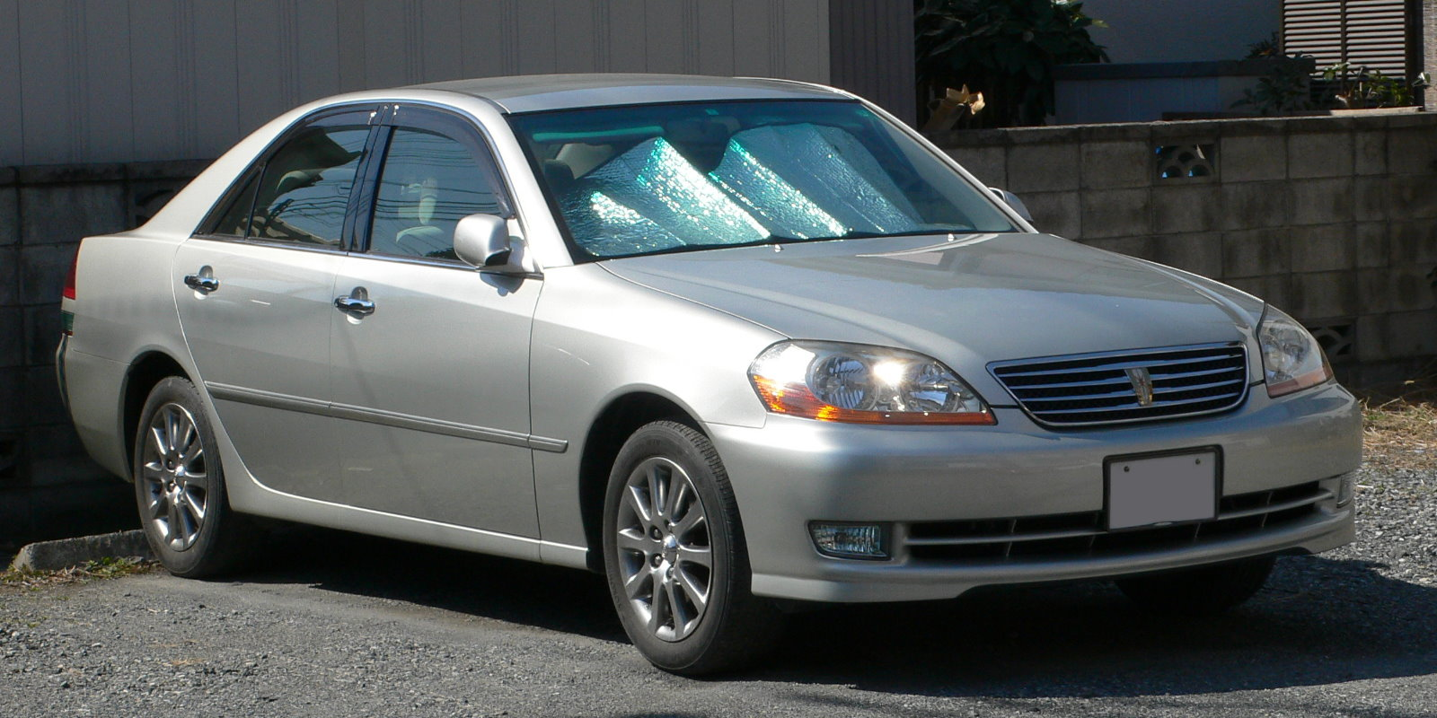 9th generation Toyota_Mark_II (2002/10 - 2004/10)